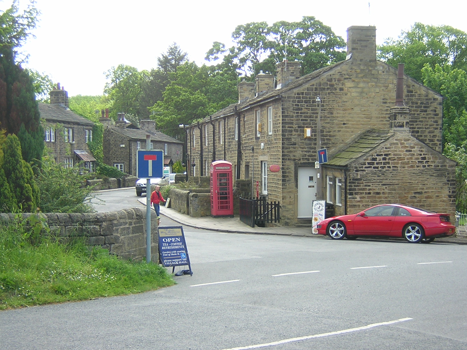 The centre of Esholt, taken from the bottom of Station Road, looking along Main Street.